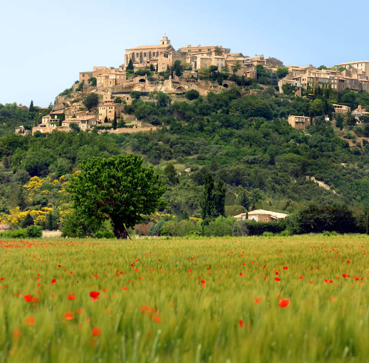 the village of Gordes, Vaucluse, France